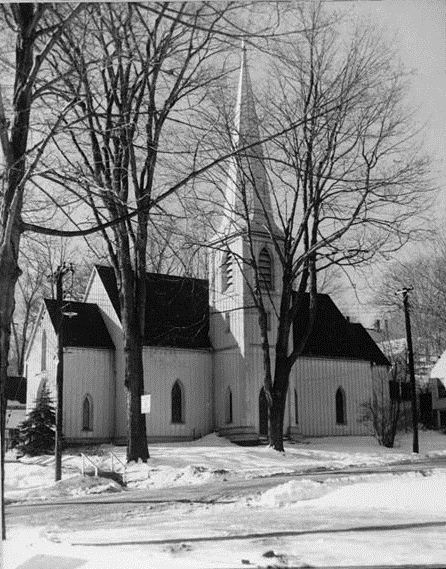 St. Matthew's Episcopal Church, 20 Union Street, Hallowell, Kennebec County, Maine (built 1860).